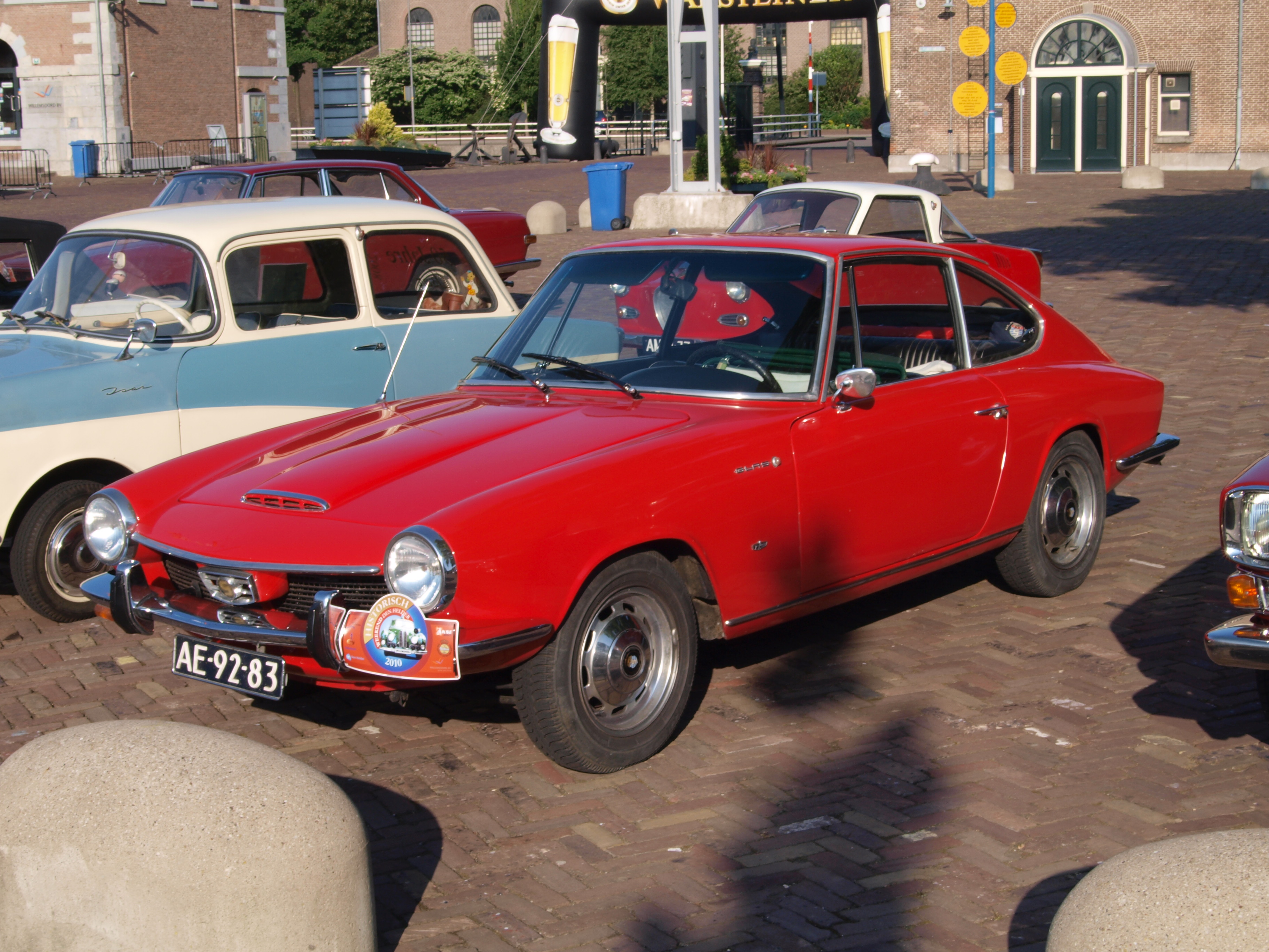 Photographed at Den Helder, The Netherlands. OLYMPUS DIGITAL CAMERA